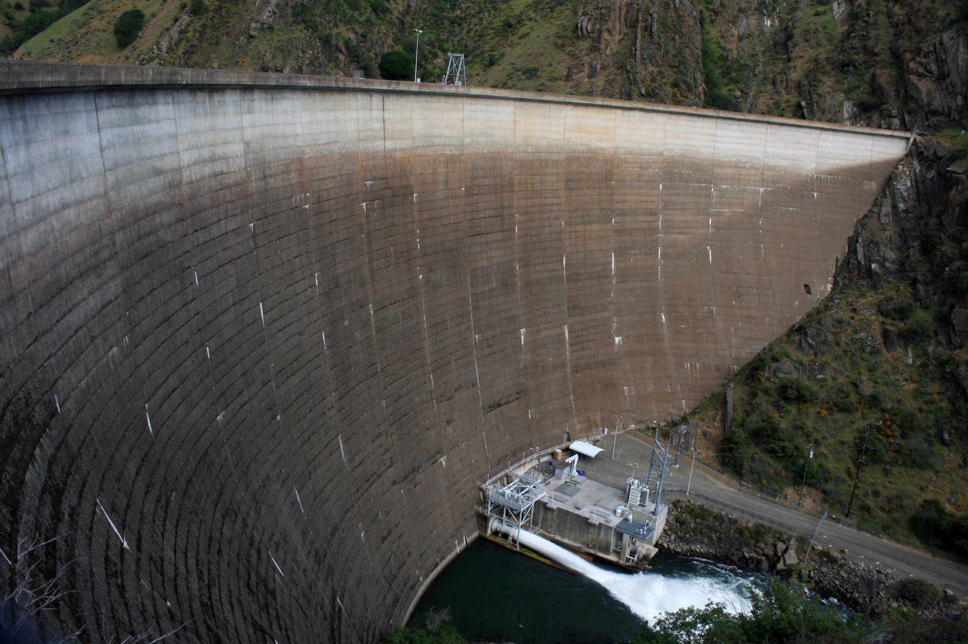 Monticello Dam seen from the viewing area. This image had its colour adjusted (auto adjust in photoshop), otherwise it is in its original state.